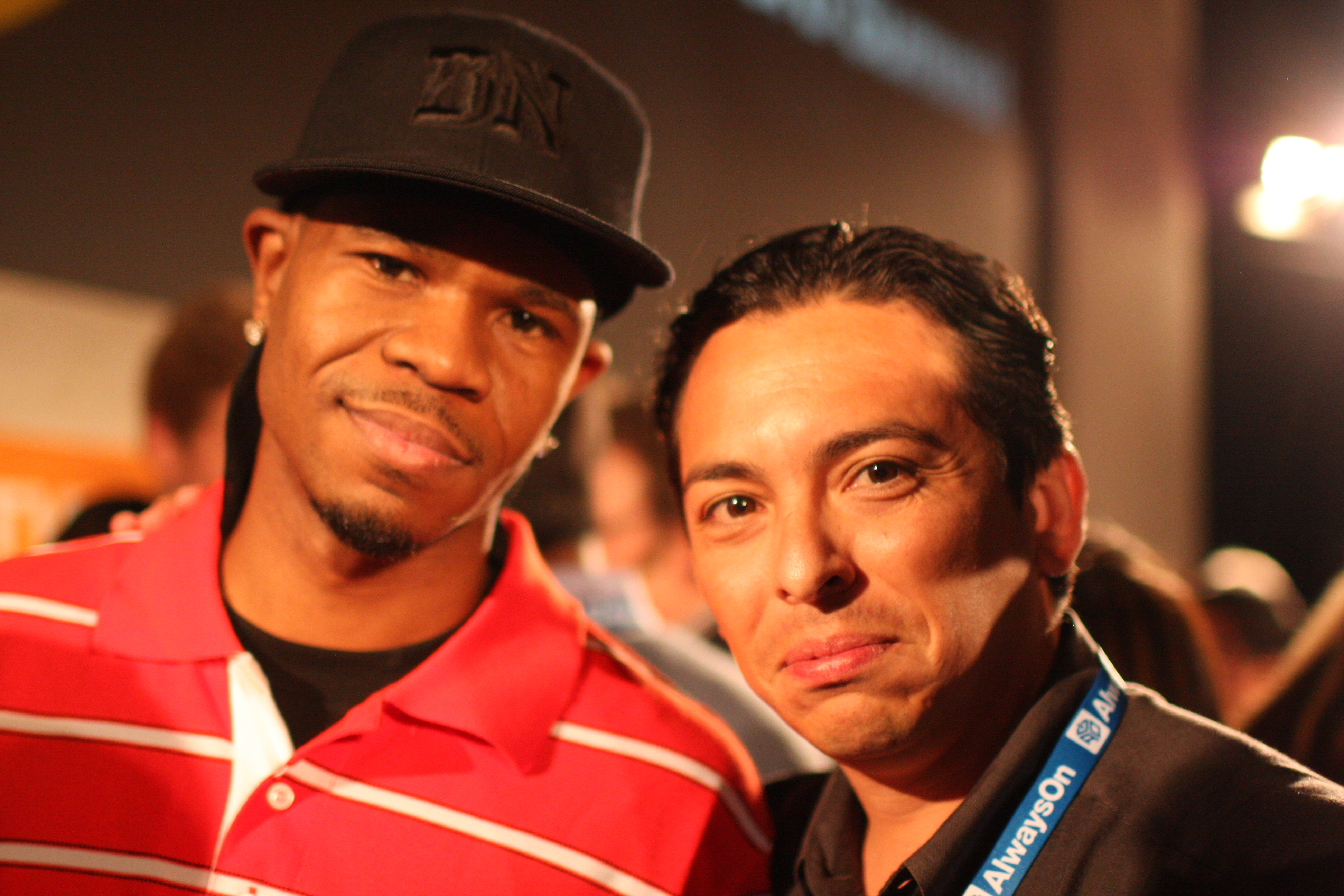 Chamillionaire and Brian Solis. (CC) Brian Solis, and .